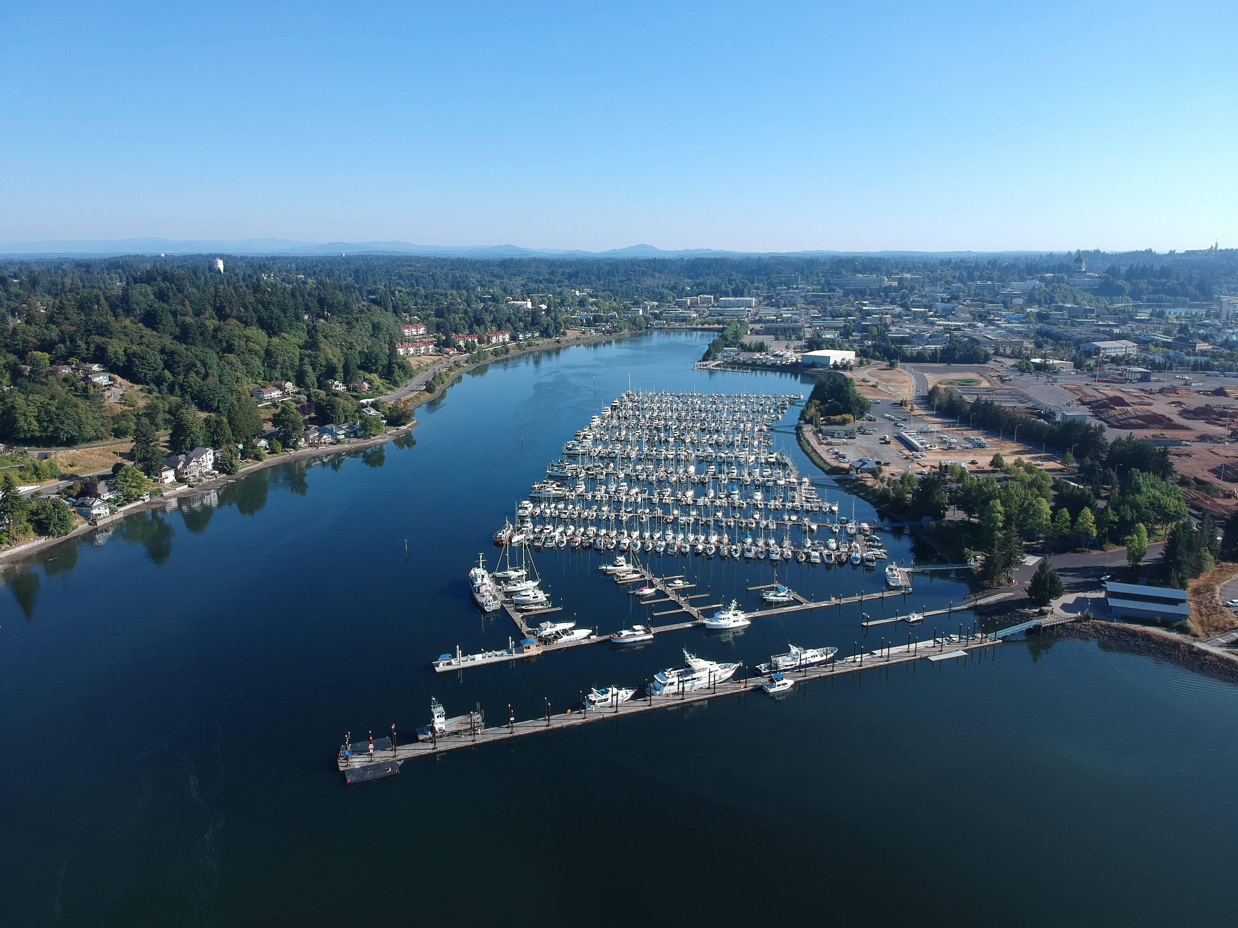 East Bay, the SE lobe of Budd Inlet